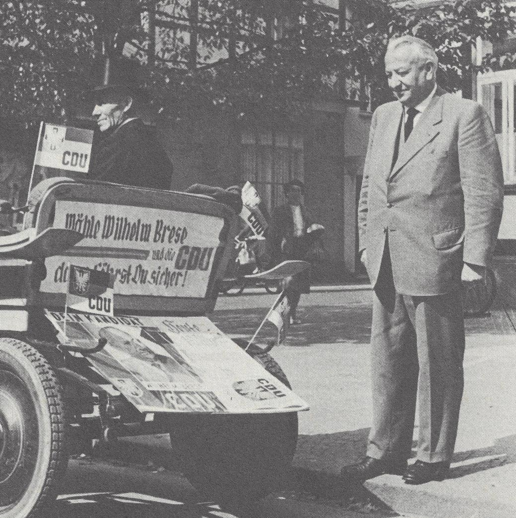 Wahlkampf zur Kreistagswahl 08.11.1952 in Celle